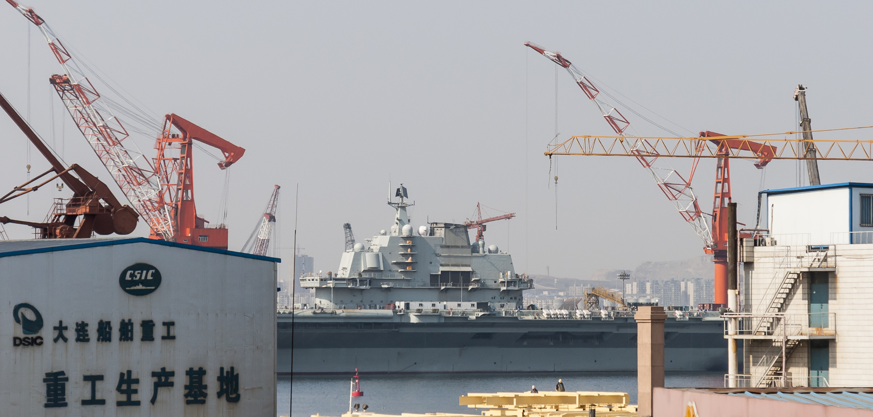 Dalian, Liaoning, China: CNS Liaoning (CV-16) during refurbishment in Dalian Shipyard